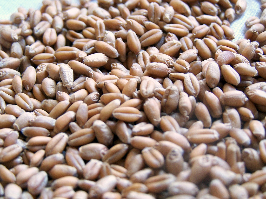 Wheatberry refers to the entire kernel of wheat except for the hull